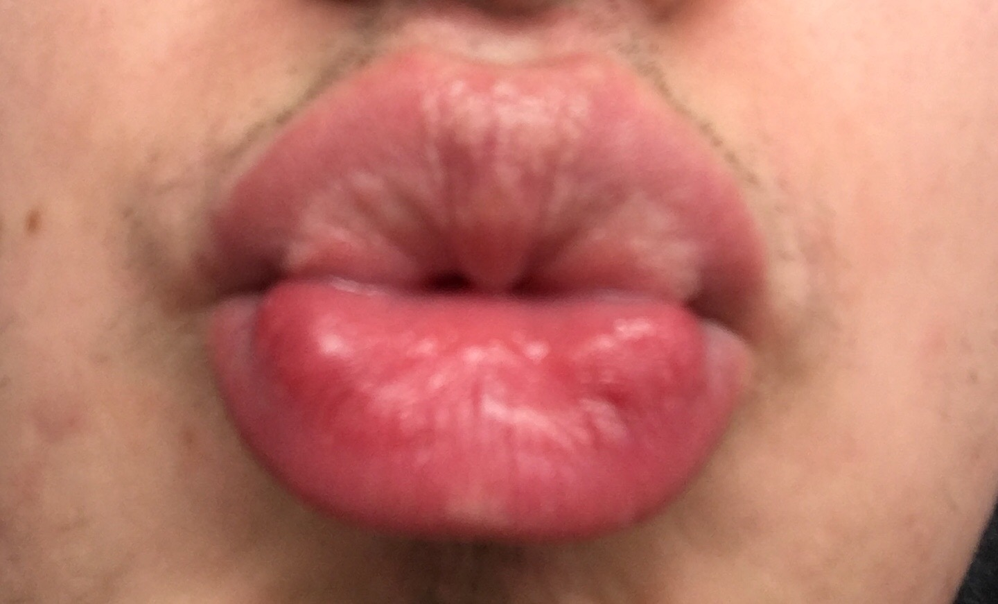 This is a picture of my lips which have a visible patch of Fordyce spots in the center of the vermilion border.